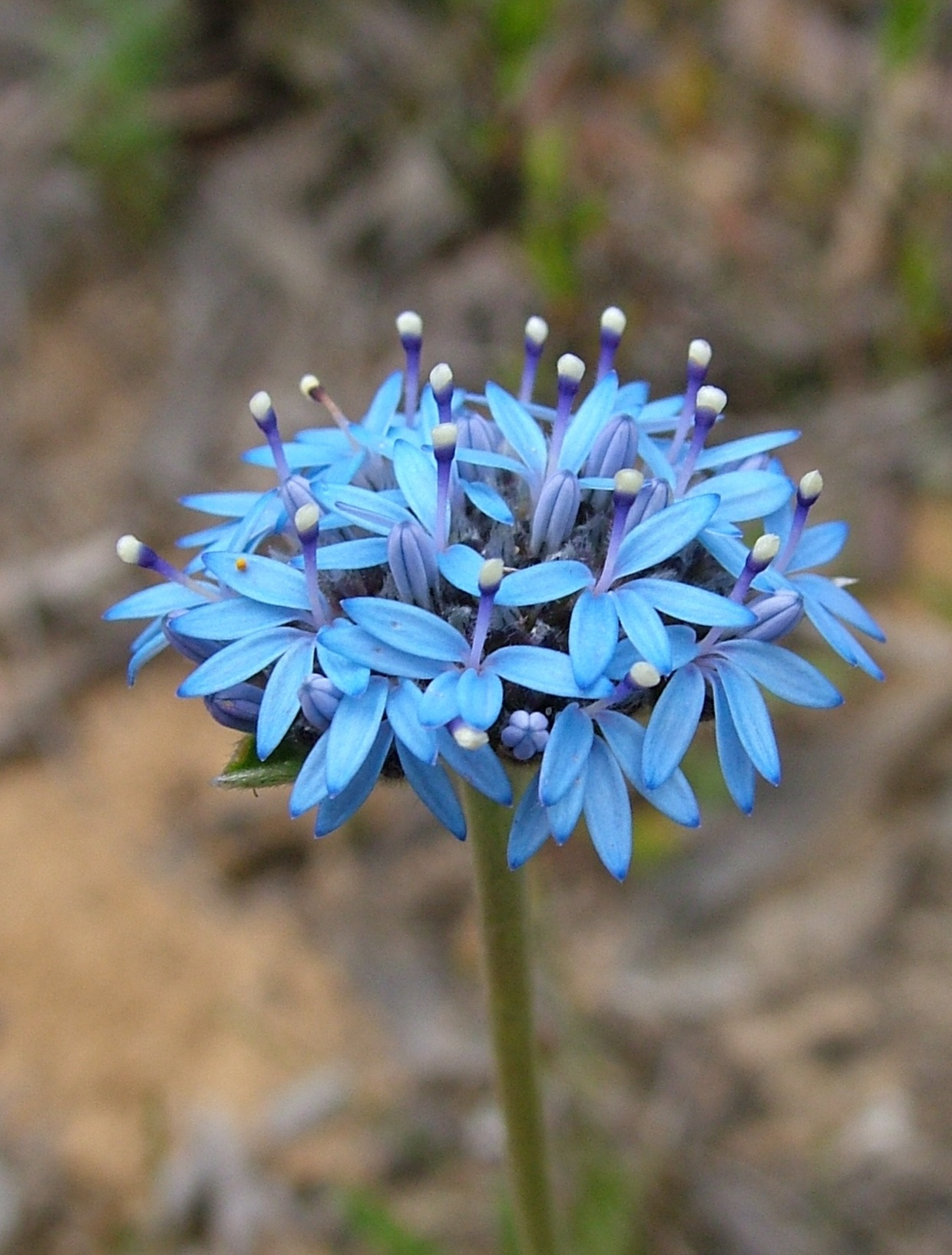 Brunonia australis, Grampians, Vic., Australia, Nov. 2009